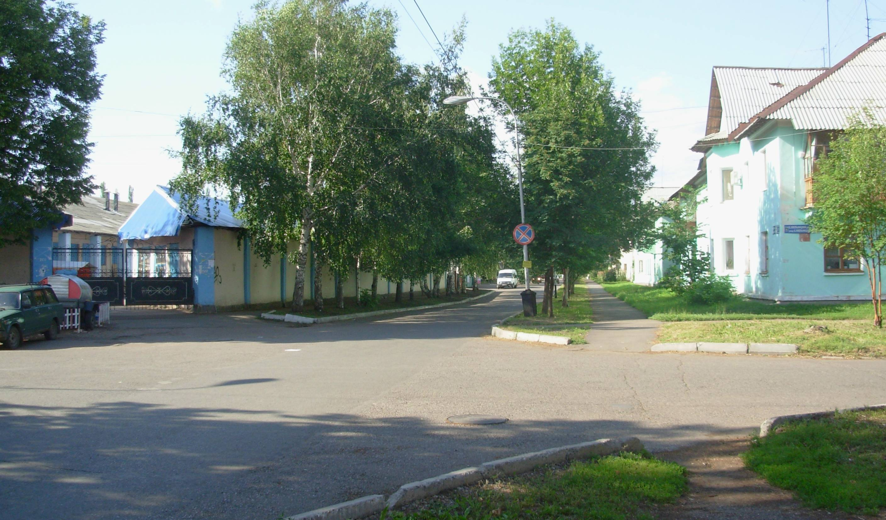 street Salavat